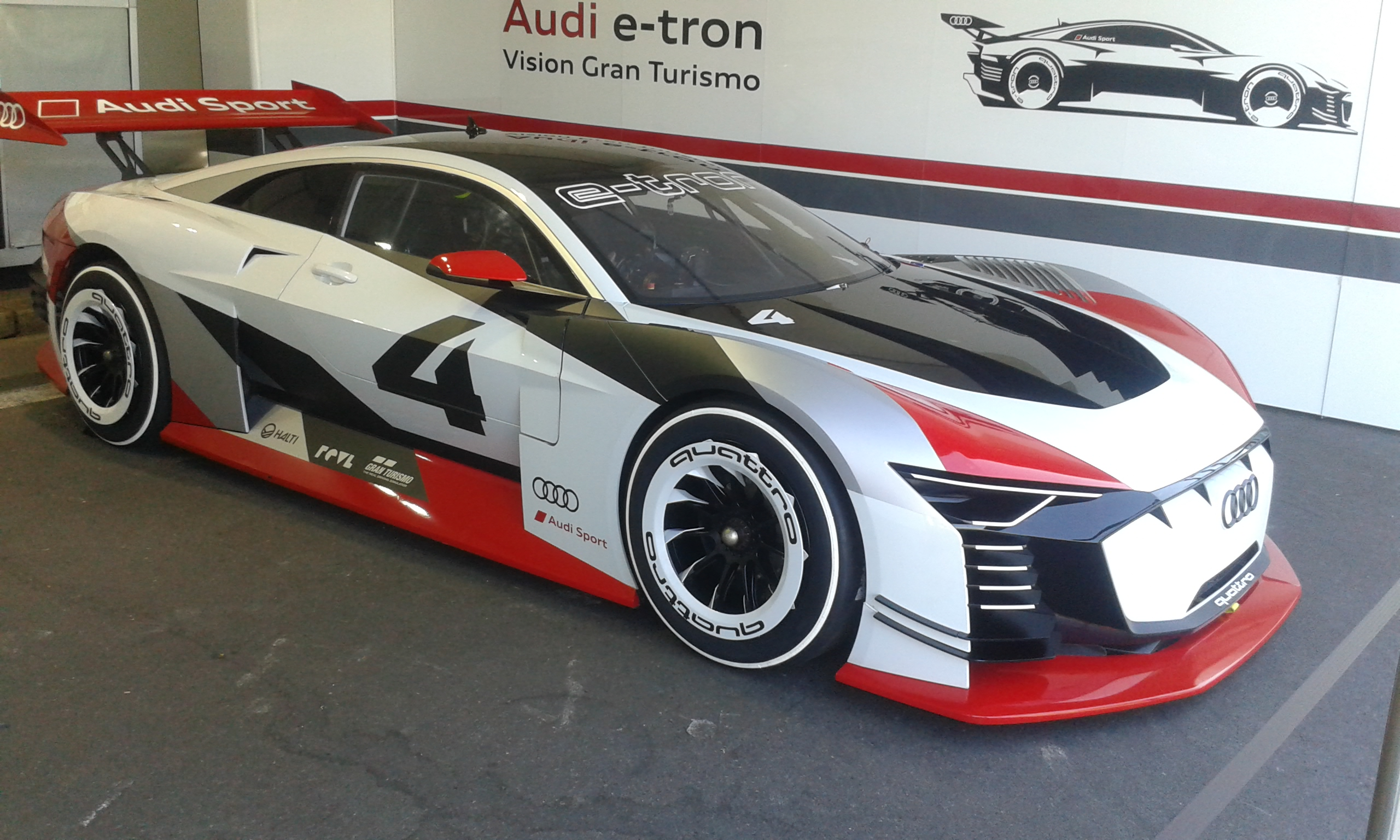 Audi e-tron Vision Gran Turismo at 2018 Paris E-Prix